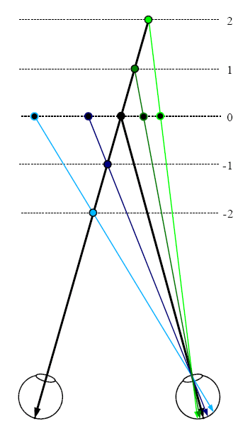 Simulation of disparity from depth in the plane. The full black circle is the point of fixation. Objects in varying depths are placed along the line of fixation of the left eye. The same disparity produced from a shift in depth of an object (filled coloured circles) can also be produced by laterally shifting the object in constant depth in the picture one eye sees (black circles with coloured margin). Note that for near disparities the lateral shift has to be larger to correspond to the same depth compared with far disparities.